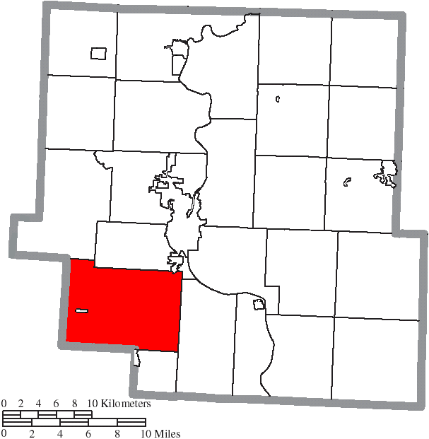 Map of the municipal and township boundaries of Muskingum County, Ohio, United States, as of the 2000 census, with the location of Newton Township highlighted. Township borders are shown only in unincorporated areas in order to differentiate incorporated and unincorporated areas more clearly.